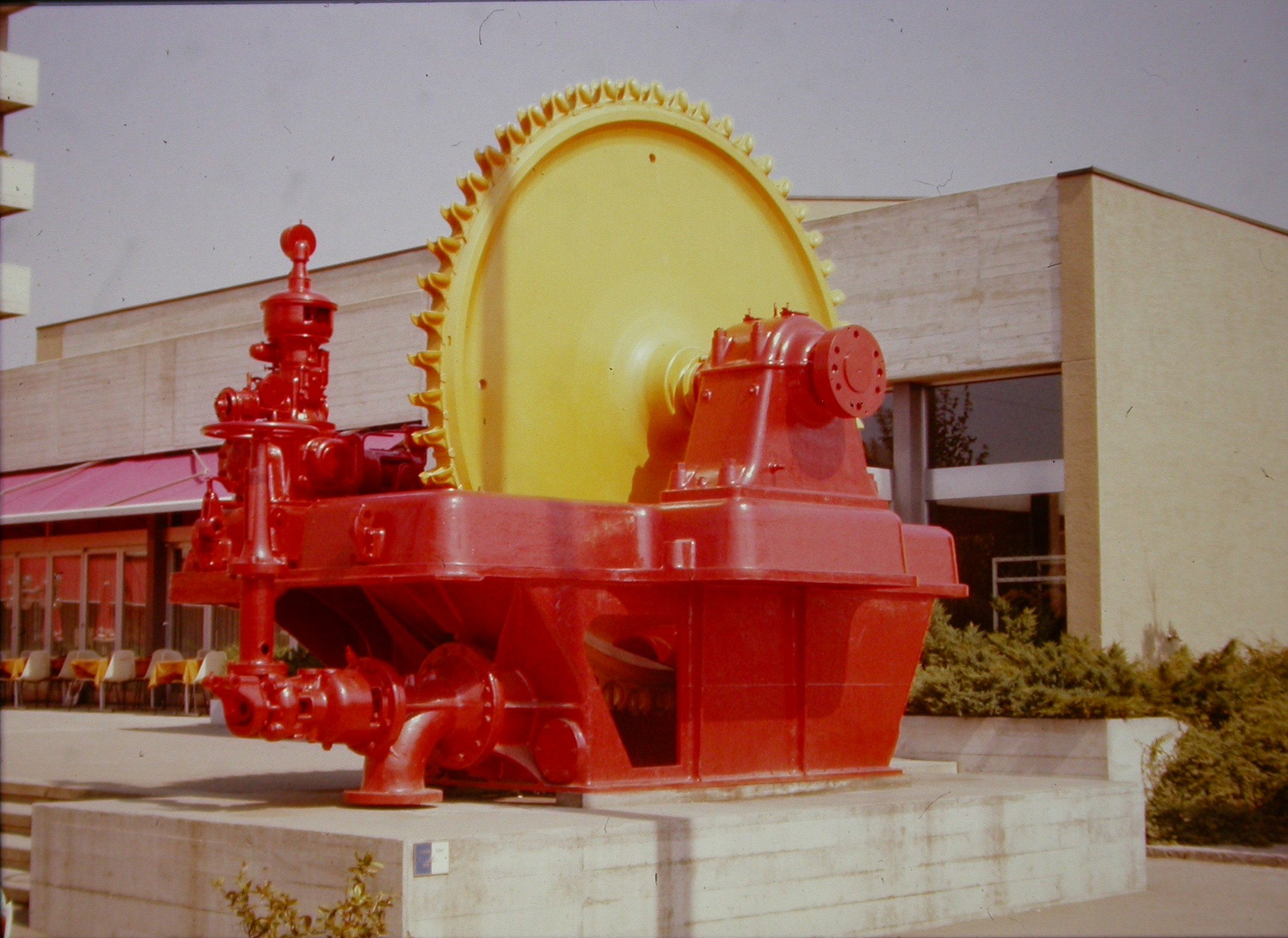 Fully Turbine 1914